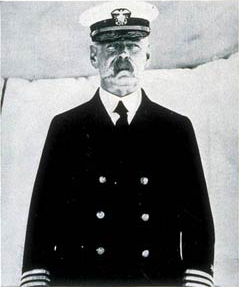 Charles Frederick Hughes, from Time Magazine's cover for May 9, 1927